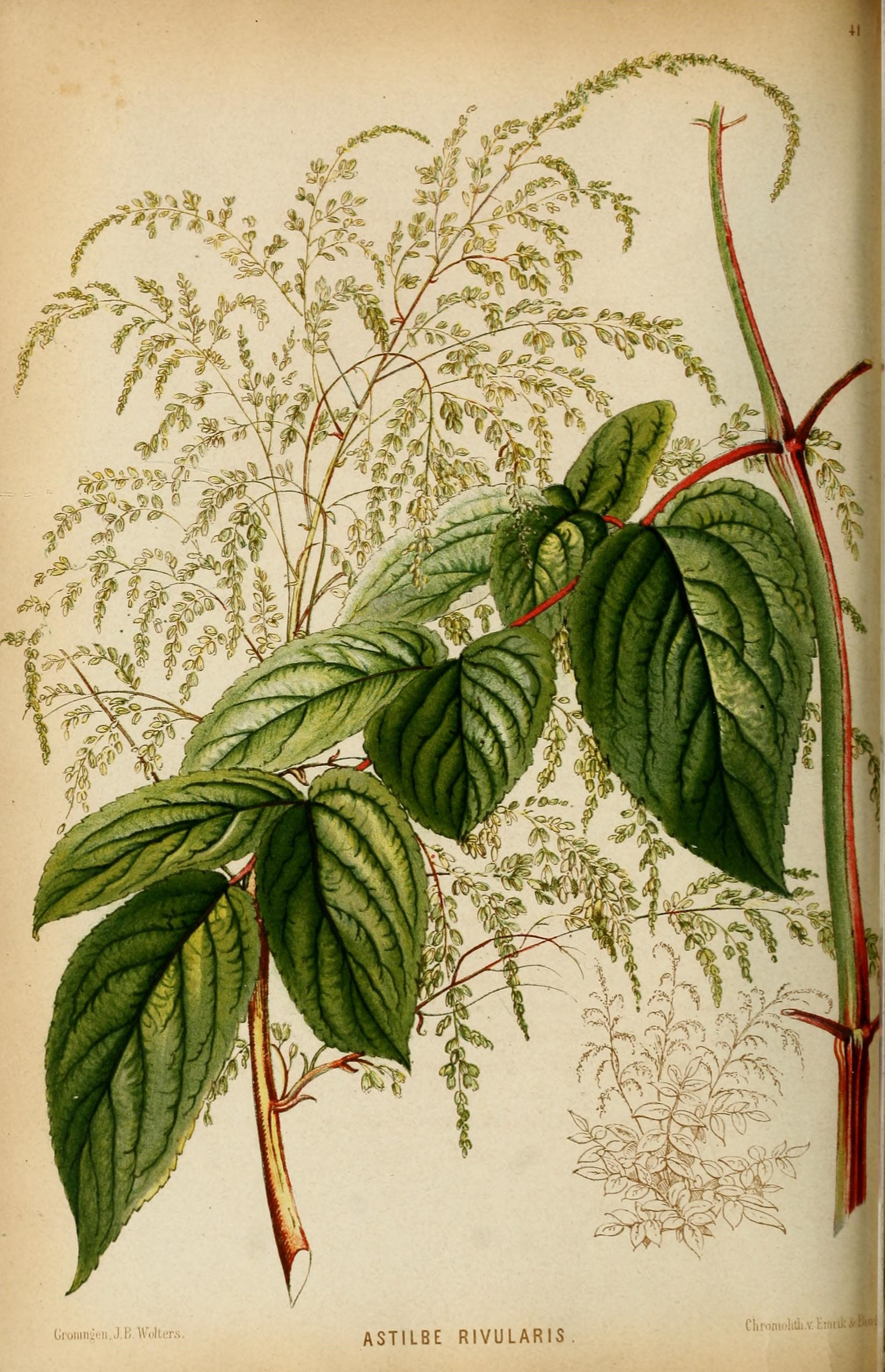 ASTILBE RIVULARIS